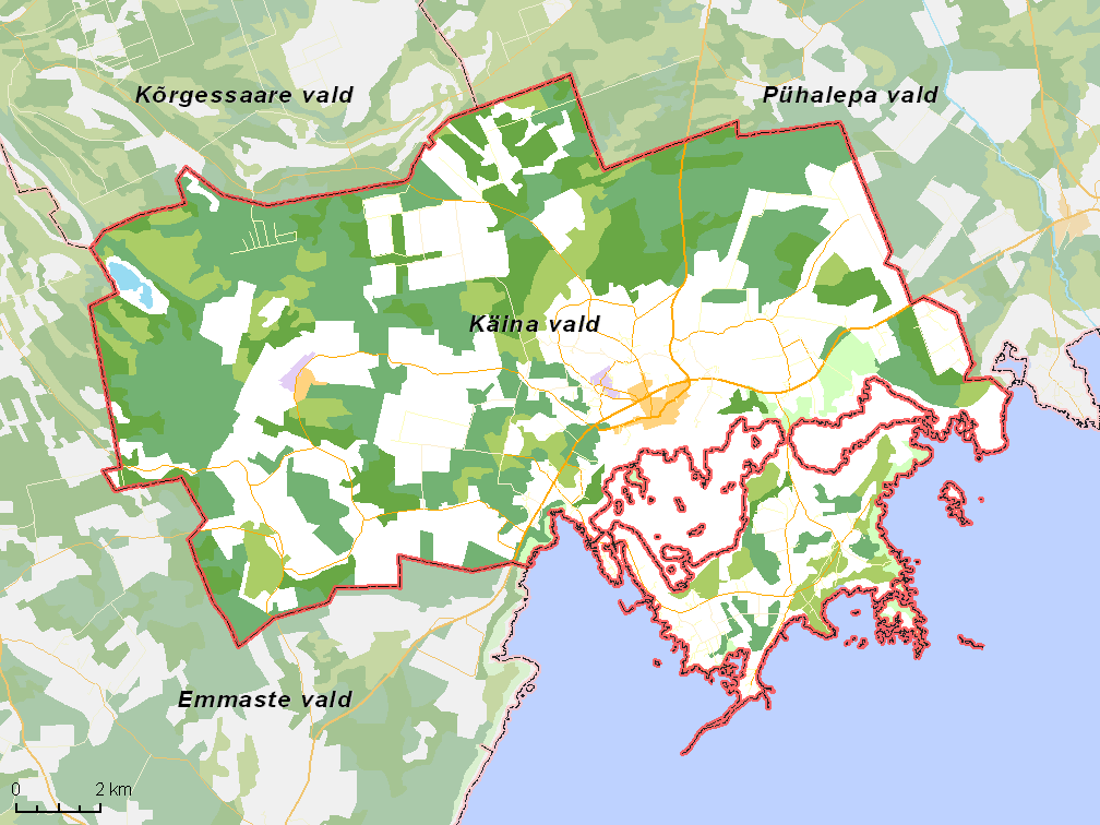 Map of municipality in Estonia